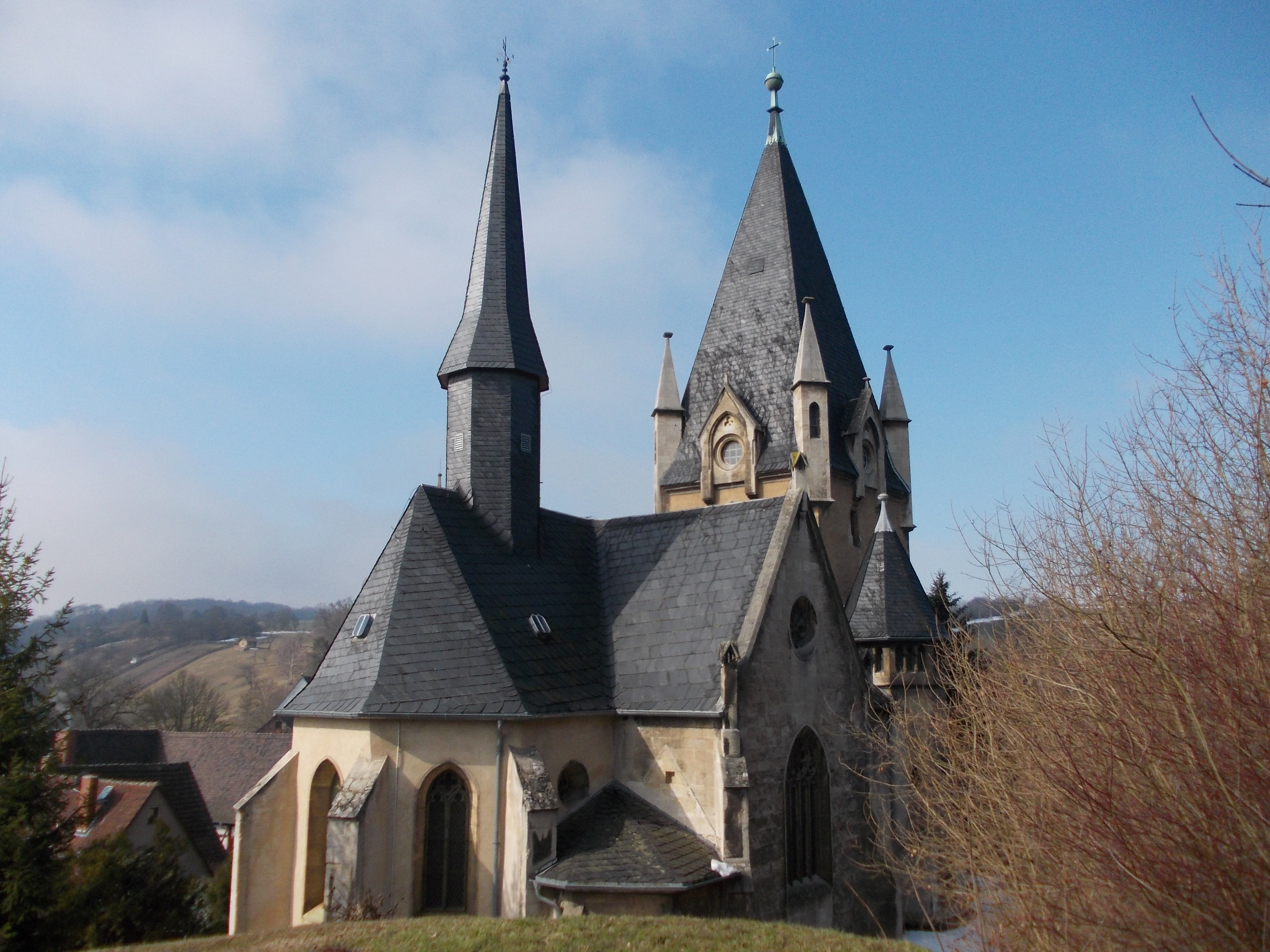 St. Elisabeth Church in Rossbach (Naumburg, district of Burgenlandkreis, Saxony-Anhalt)